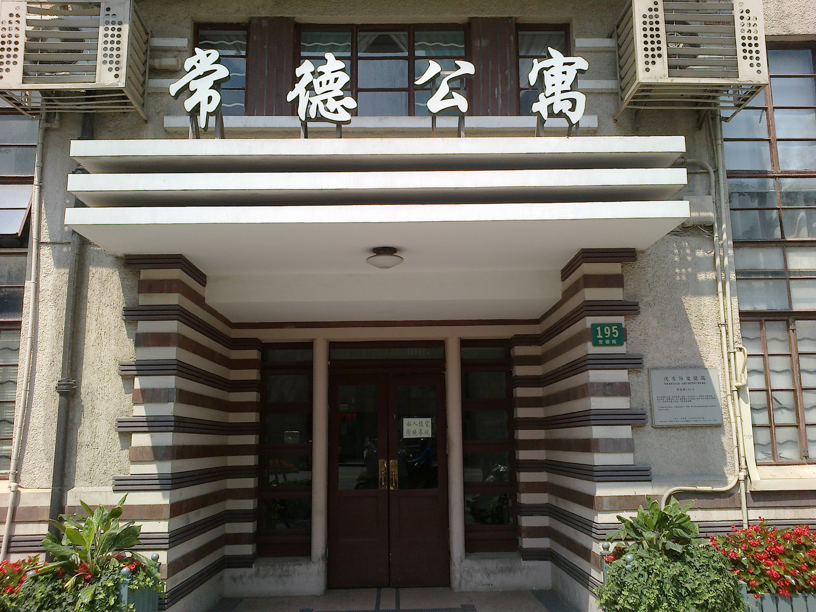 Edingburgh House, Former residence of Eileen Chang